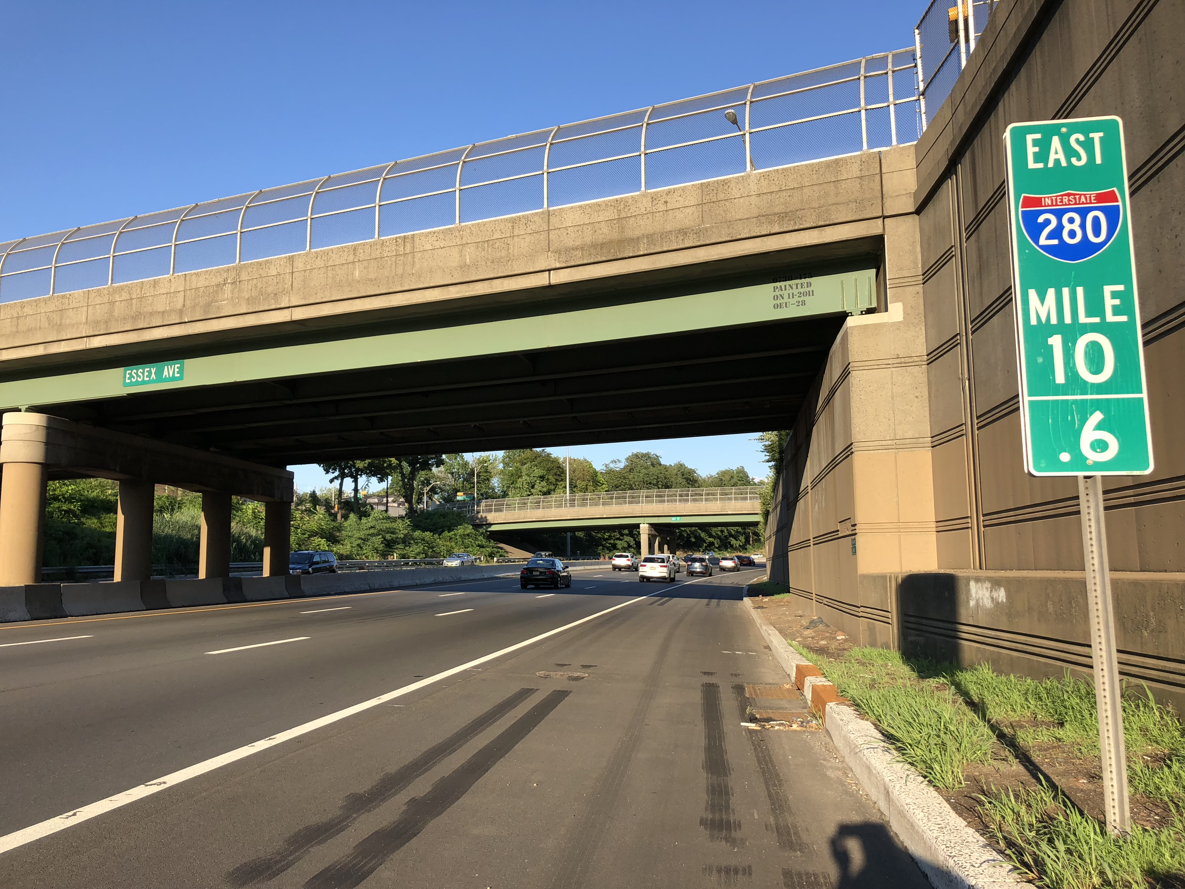 View east along Interstate 280 (Essex Freeway) between Exit 11 and Exit 11A in Orange, Essex County, New Jersey